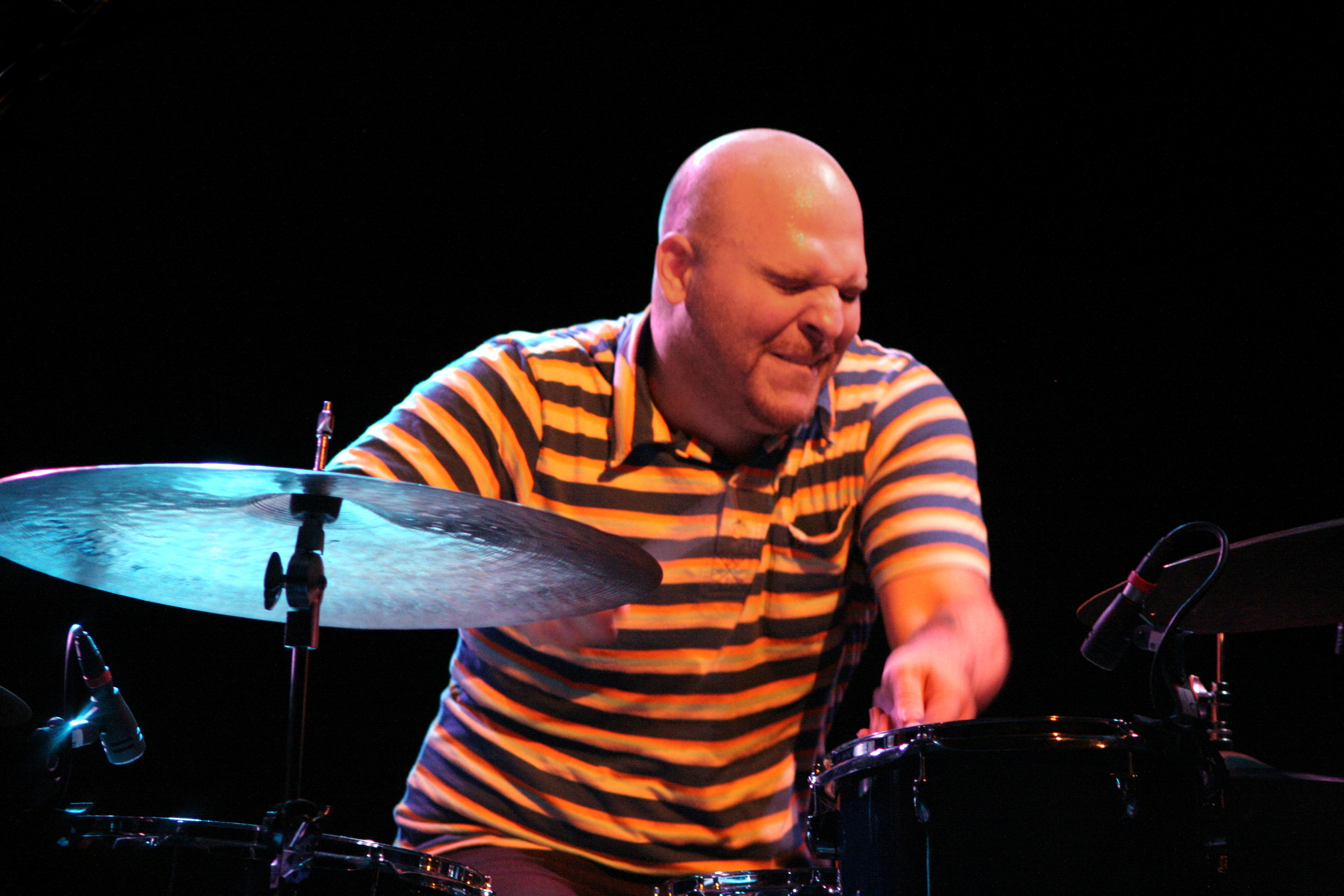 Dave King, drummer of the american jazz group The Bad Plus. Taken at a concert in the Kulturzelt in Kassel, Germany in 2006